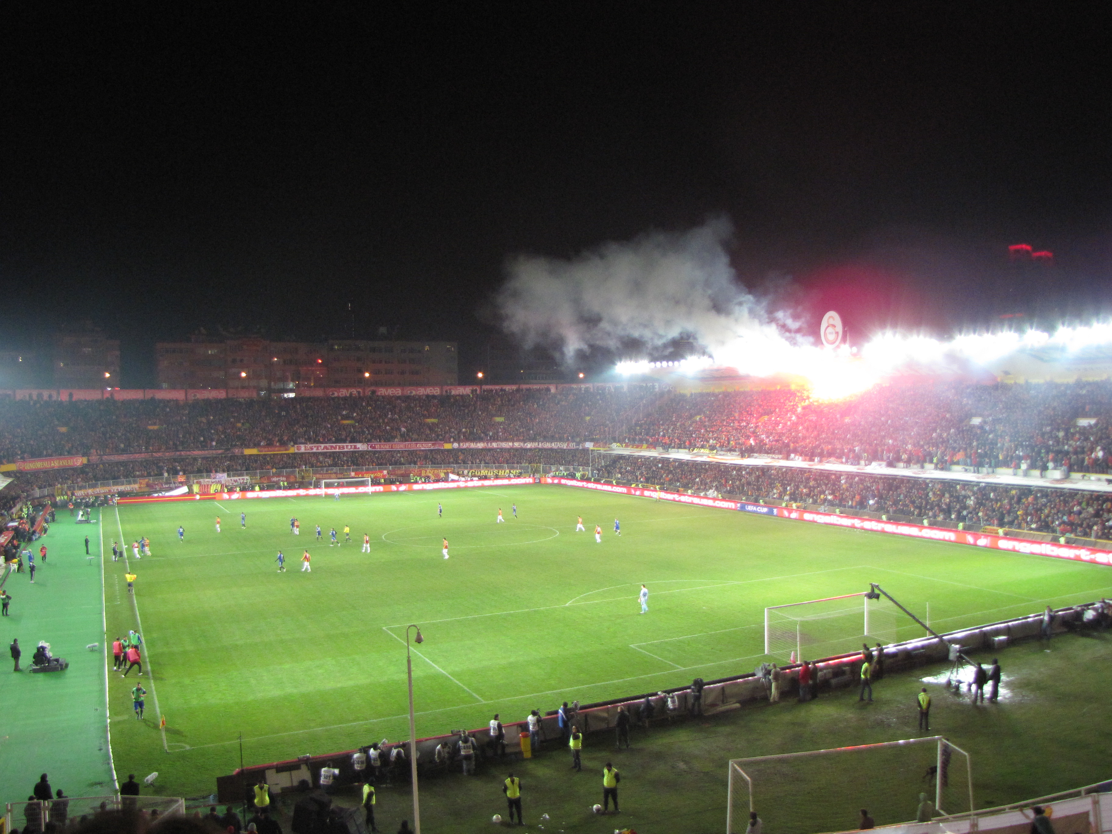 galatasaray-hamburger SV 2009 UEFA football match